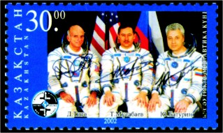 Stamp of Kazakhstan